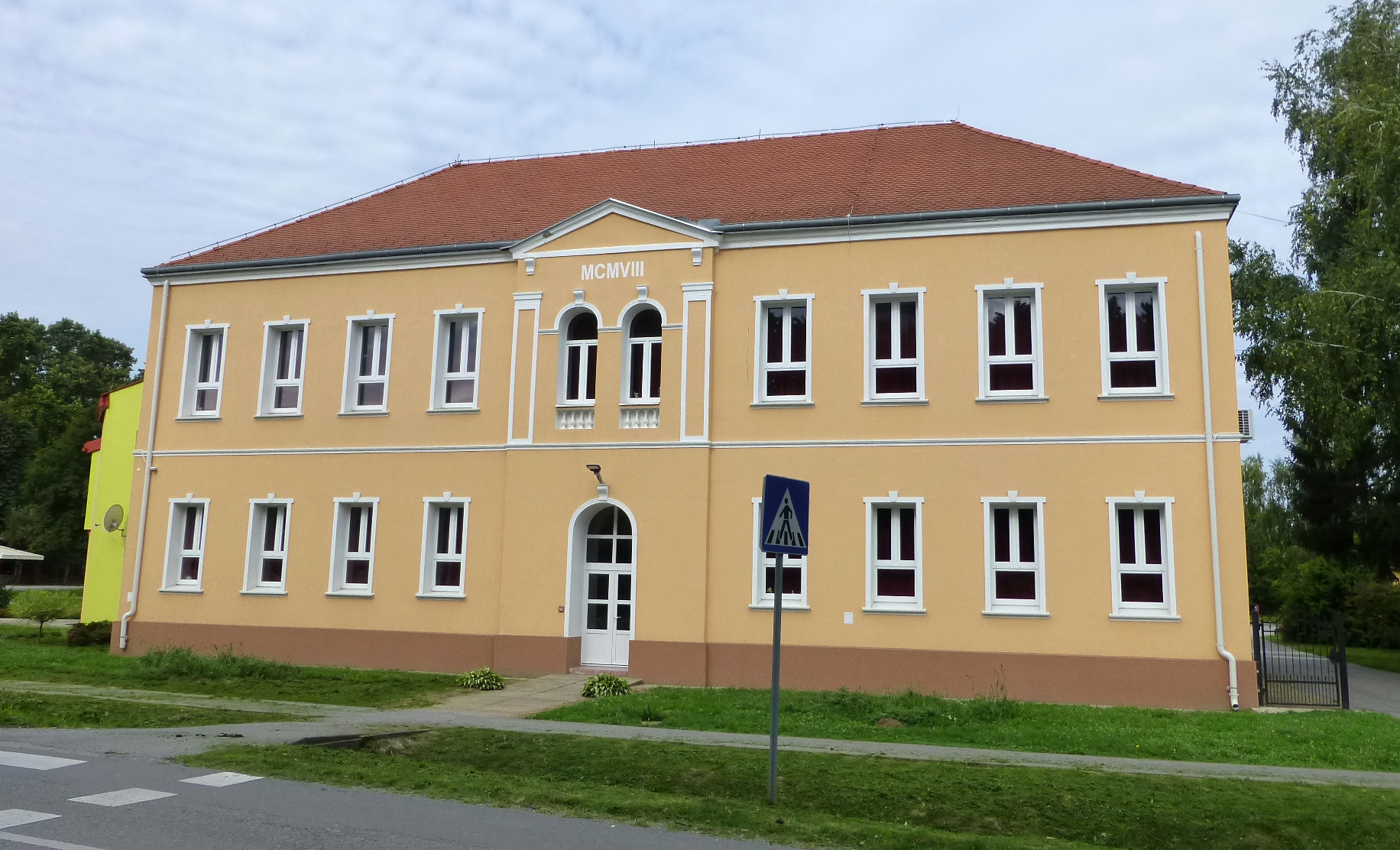 Špišić Bukovica, 1908 building, north Croatia.